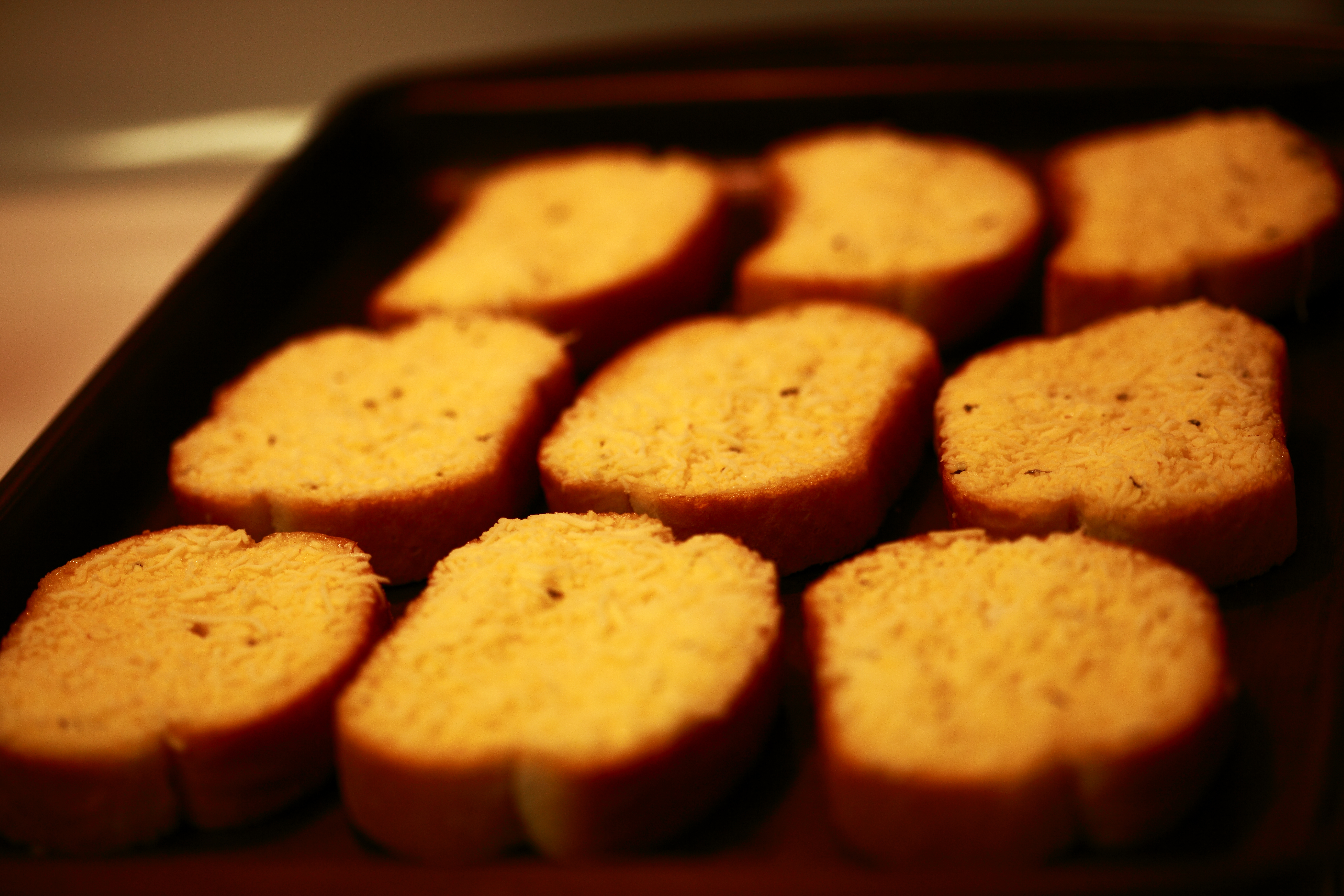 Mozzarella and Monterey Jack Cheese Texas Toasts free for use My photos that have a creative commons license and are free for everyone to download, edit, alter and use as long as you give me, "D Sharon Pruitt" credit as the original owner of the photo. Have fun and enjoy!